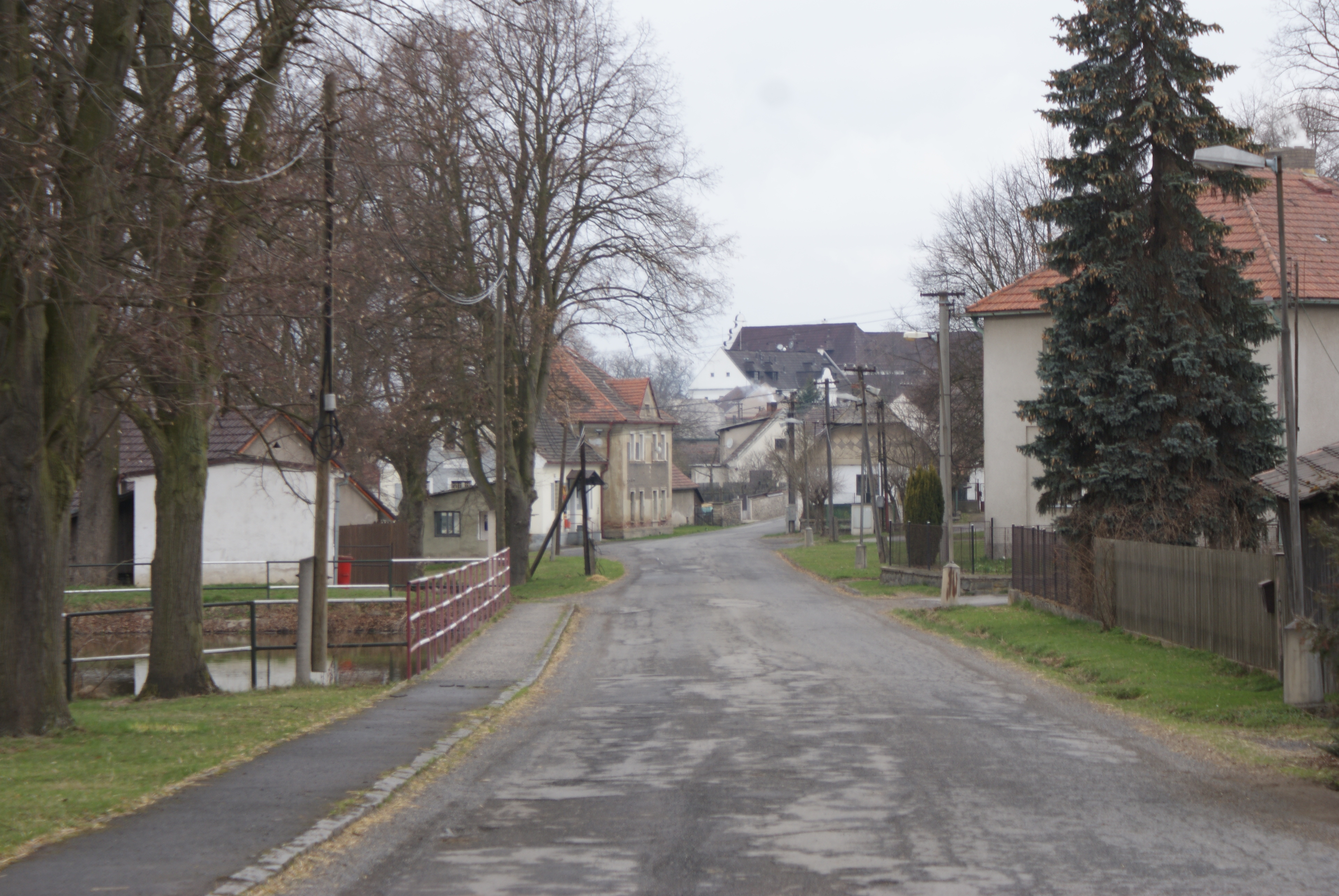 Starosedlský Hrádek, a village in Příbram district, Czech Republic. View from the village common towards the castle hotel.